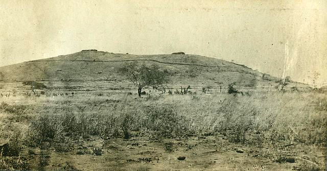 Salaita Hill in East Africa Protectorate (now Kenya), 1916